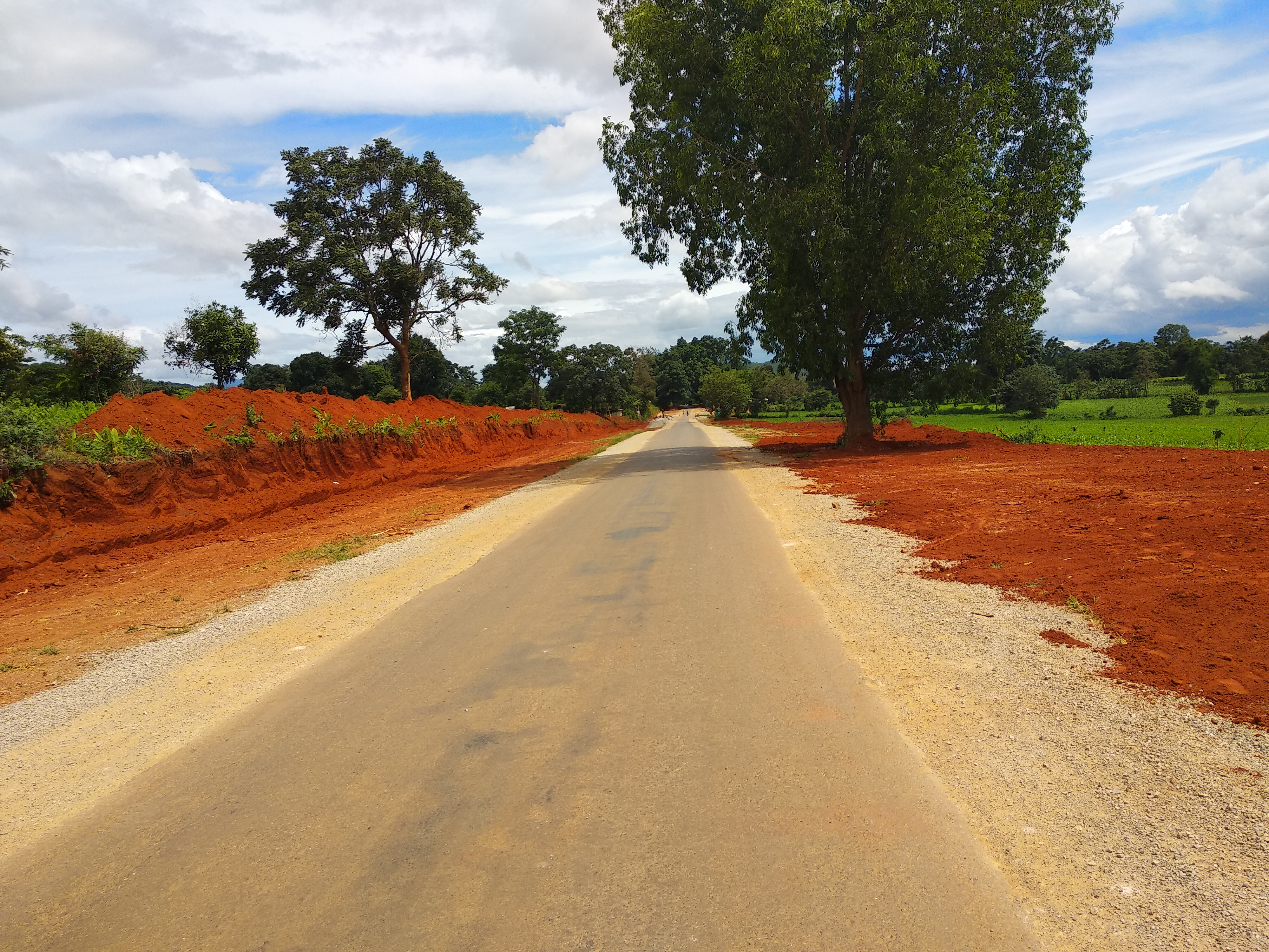 Highway Road of Loikaw to Hopong at Shan Stae